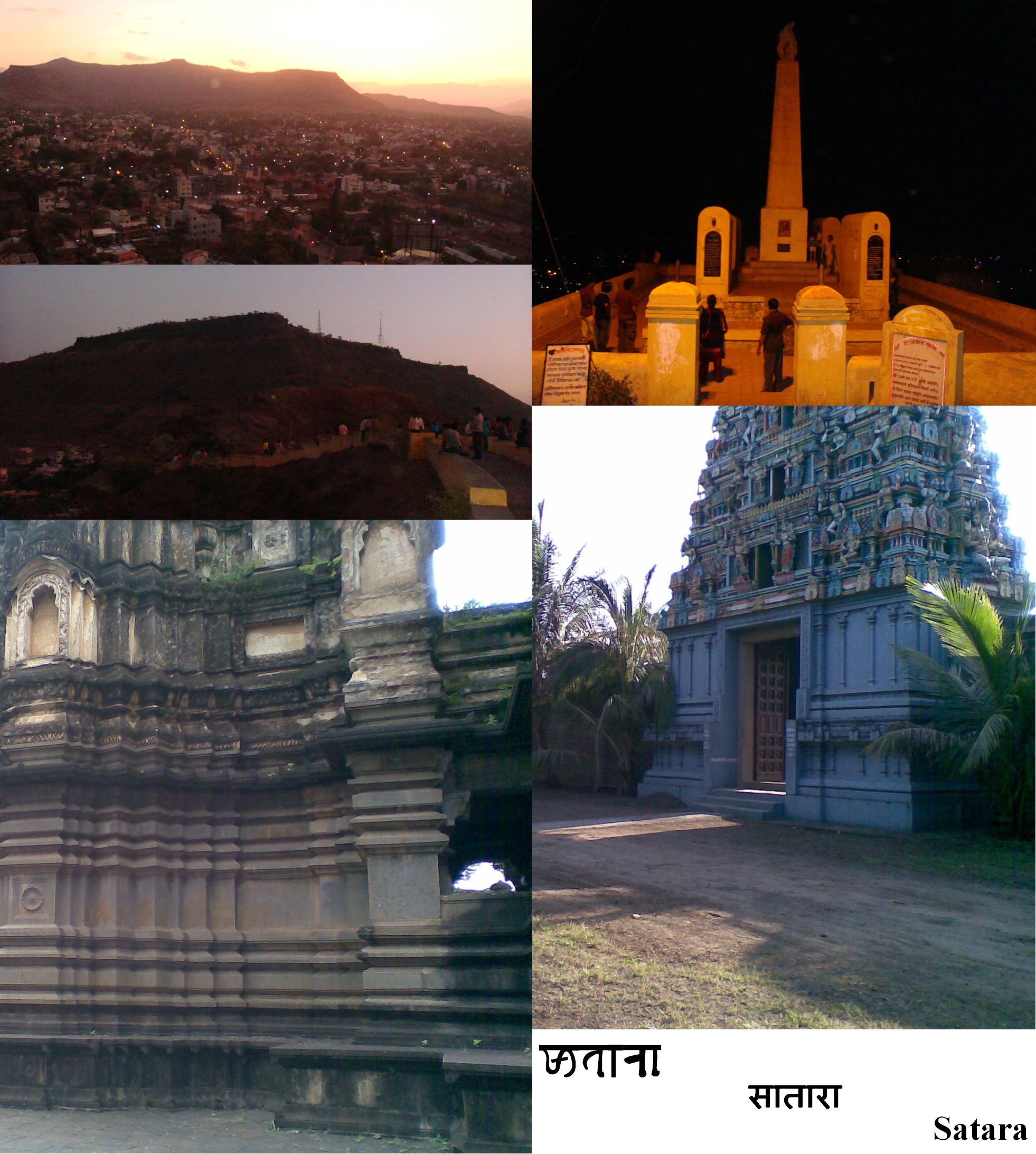 Clockwise from top: Chaarbhinti, Natraj Mandir, The name of the city 'Satara' in three different scripts: Modi, Devnagri and Roman; Kshetra Mahuli, Ajinkyatara Fort, and the panorama of Satara city.